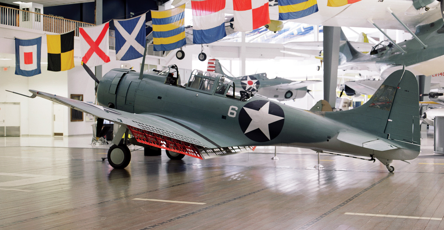 A U.S. Navy Douglas SBD-2 Dauntless at the U.S. National Museum of Naval Aviation at Pensacola, Florida (USA), on 14 November 2007.Official description: "Rolling off the Douglas Aircraft Company assembly line in El Segundo, California, in December 1940, SBD-2 Dauntless (BuNo 2106) was delivered to bombing squadron VB-2 at Naval Air Station (NAS) San Diego, California, on the last day of 1940. On 10 March 1942, flown by Lt(jg) Mark T. Whittier with AR2C Forest G. Stanley as his gunner, the aircraft joined 103 other planes from USS Lexington (CV-2) and USS Yorktown (CV-5) in a raid against Japanese shipping at Lae and Salamaua in New Guinea. It was then transferred to Marine scout bombing squadron VMSB-241 on Midway Atoll, arriving there with eighteen other SBD-2s on 26 May 1942, on board the aircraft transport USS Kitty Hawk (APV-1). On the morning of 4 June 1942, with 1st Lt Daniel Iverson as pilot and PF1c Wallace Reid as rear gunner, the aircraft was one of sixteen SBD-2s of VMSB-241 launched to attack Japanese aircraft carriers to the west of Midway. After unsuccessfully attacking the carrier Hiryu, enemy fire holed the plane 219 times. It was one of only eight SBD-2s of VMSB-241 to return from the attack against the Japanese fleet. Returned to the US, it was repaired and eventually assigned to the Carrier Qualification Training Unit (CQTU) at NAS Glenview, Illinois. On the morning of 11 June 1943 Marine 2nd Lt Donald A. Douglas Jr. ditched the aircraft in the waters of Lake Michigan during an errant approach to the training carrier USS Sable (IX-81). Recovered in 1994, the aircraft underwent extensive restoration at the museum before being placed on public display in 2001. Elements of its original paint scheme when delivered to the fleet are still visible on its wings and tail surfaces." (shortened)